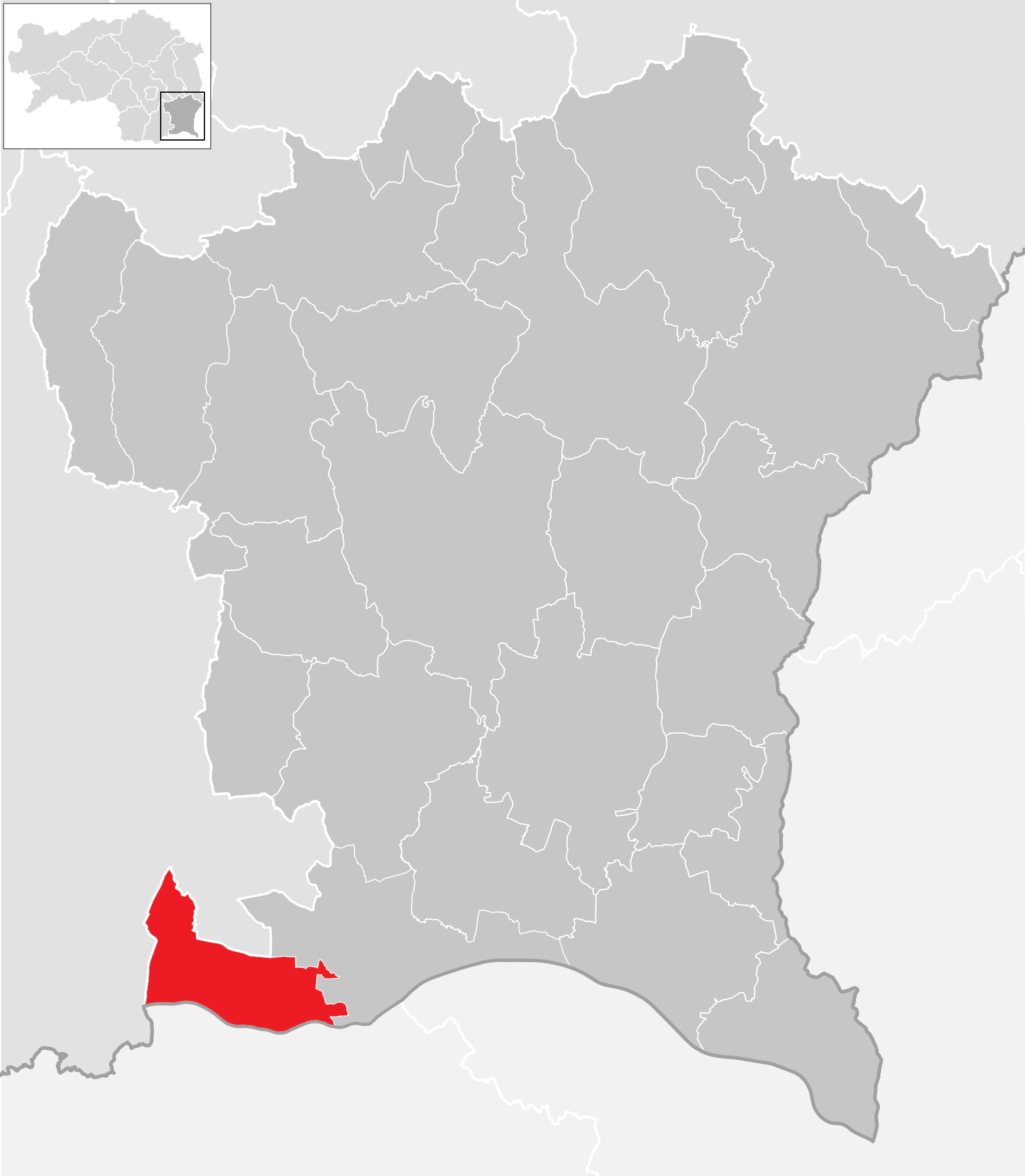 district Südoststeiermark